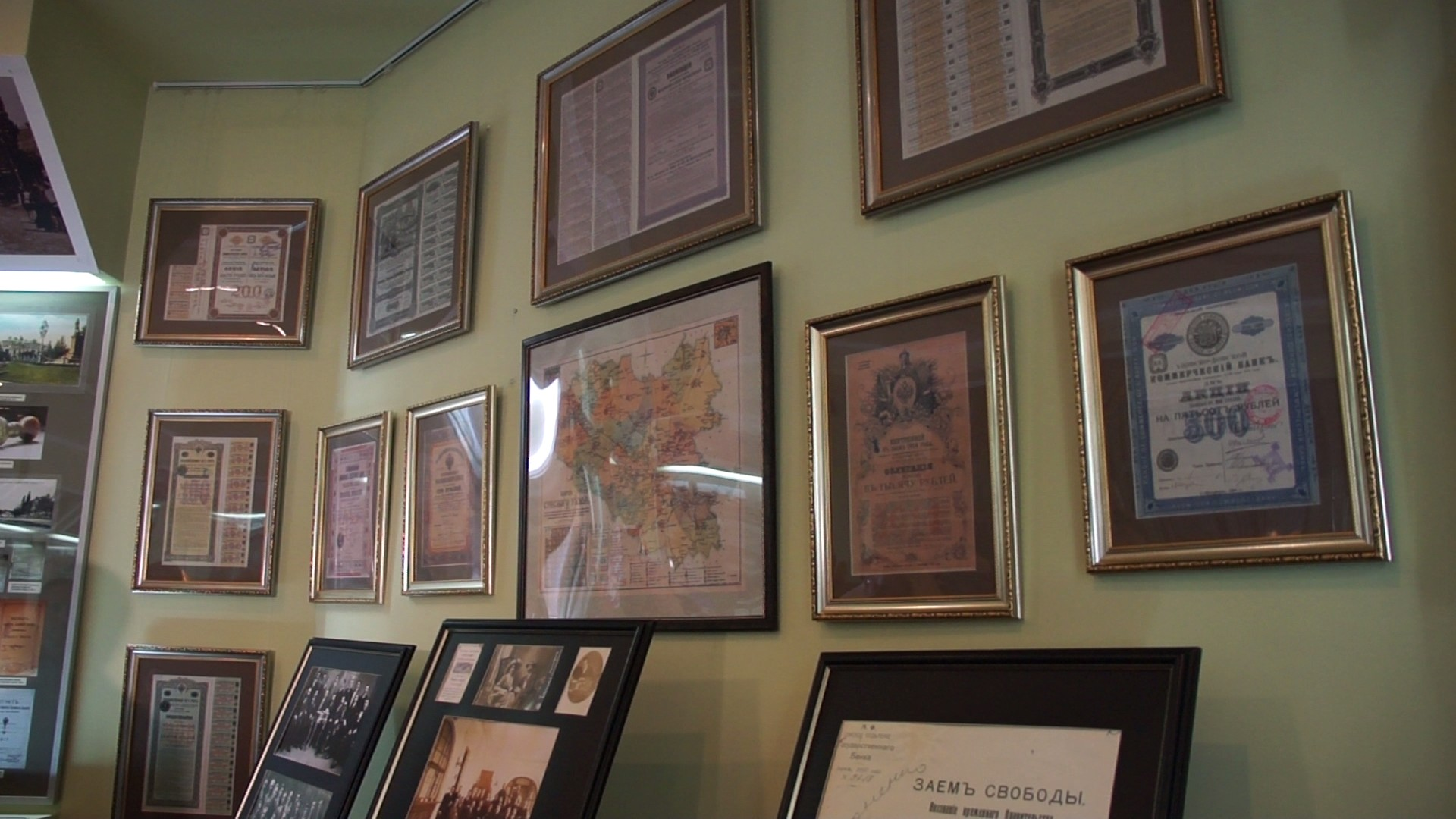 Updated exposition at the "Museum of Banking in the Sumy oblast and the History of Money"